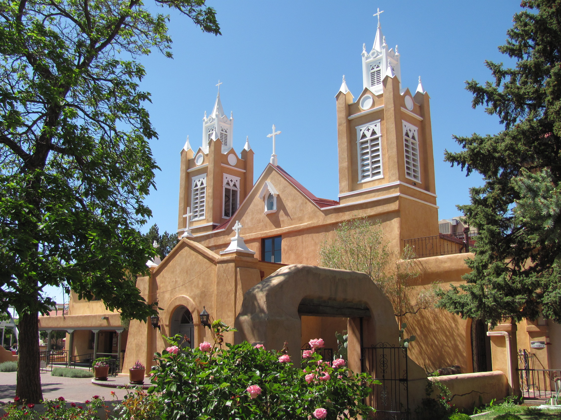 San Felipe de Neri Church, Albuquerque New Mexico